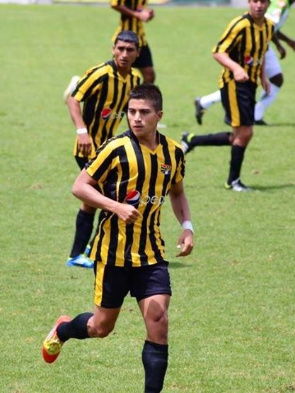 juan chang aurora